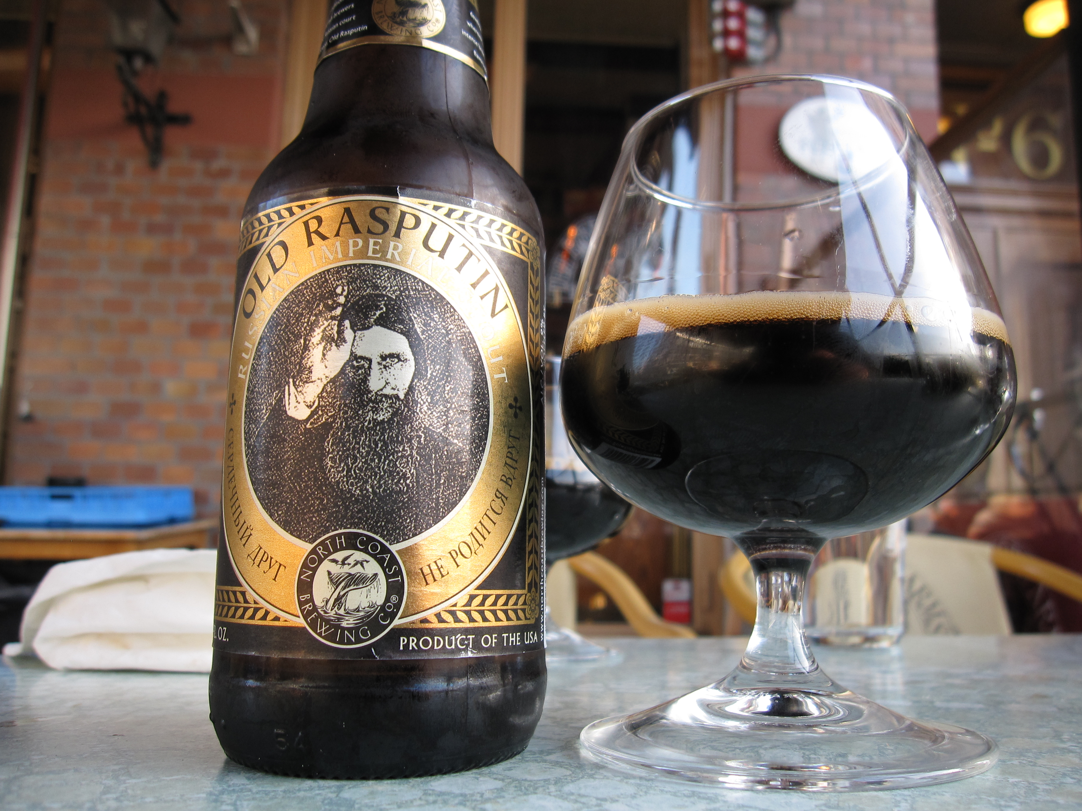 A bottle of Old Rasputin from North Coast Brewing Company in Fort Bragg, California. This beer is a 9% ABV Russian Imperial Stout, named after the Russian mystic Grigori Rasputin who bewitched the last Tsaritsa a century ago. Now, North Coast is trying to bewitch us with this potent brew. The beer poured pitch black, tar-like, into the glass with a large, foamy brown head. The smell was intense of burnt coffee beans, sweet toffee and licorice. Mouthfeel is oily, thick and very smooth. The flavor is a bombshell of different tastes; strong coffee is balanced by caramel sweetness, an undercurrent of bitter hops can be felt too and then the licorice and chocolate kicks in and lingers in the long aftertaste. Wow! Old Rasputin is one of the best imperial stouts out there.